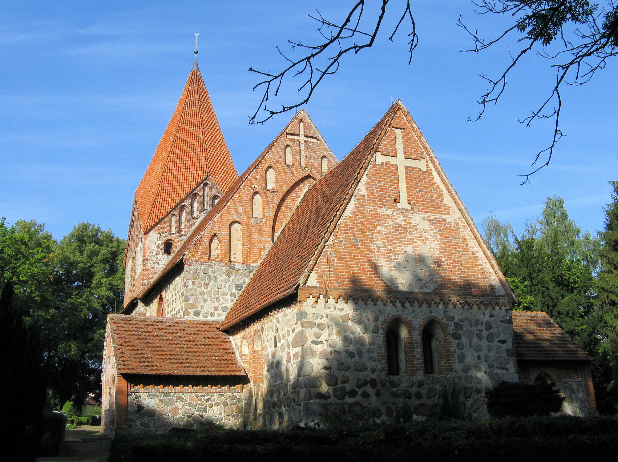 Church in Bernitt, disctrict Güstrow, Mecklenburg-Vorpommern, Germany